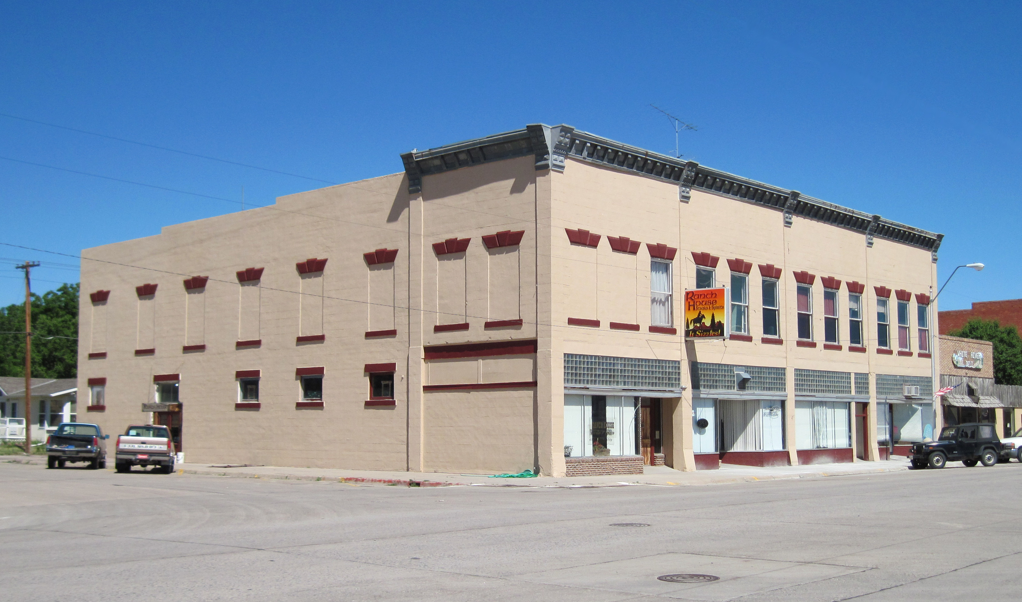 Co-operative Block Building, Crawford, Nebraska. Southeast elevation, summer 2012. The building was built in 1909 and added to the National Register of Historic Places on September 12, 1985; it is also known locally as Co-op Block, Midwest Block or (most prevalently) by the name of its current occupant, MJ's Ranch House restaurant. The structure was repainted tan with burgundy trim in spring 2012. Co-op Block also is occupied by Crawford's hometown newspaper, the Crawford Clipper.